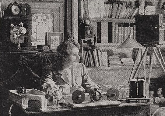 Image from the National Media Museum Collection. It took place in Smith's office at Furze Hill, Hove (1900). On the desk, a film meseasurer. On the tripod, Smith's camera. Smith is credited with the first close-up, the division of a scene up into different shots (editing), and the POV shots. After the death of Edward Turner, Charles Urban turned to George Albert Smith to continue research on the project. A former stage hypnotist, Smith was one of the most important pioneers of British cinema. He began making films in 1897, establishing a ‘film factory’ in Hove. Smith’s films were distributed by the Warwick Trading Company and he also printed their films. Smith was critical of Turner’s projector, which he could not get to register the images. He abandoned work on the process in 1904 and turned instead to develop a two-colour process which he patented in 1906. This was launched with Urban in 1908 as Kinemacolor, the first commercially successful colour moving picture process. This would have been the end of the story had the roles of film not been rediscovered at the National Media Museum.